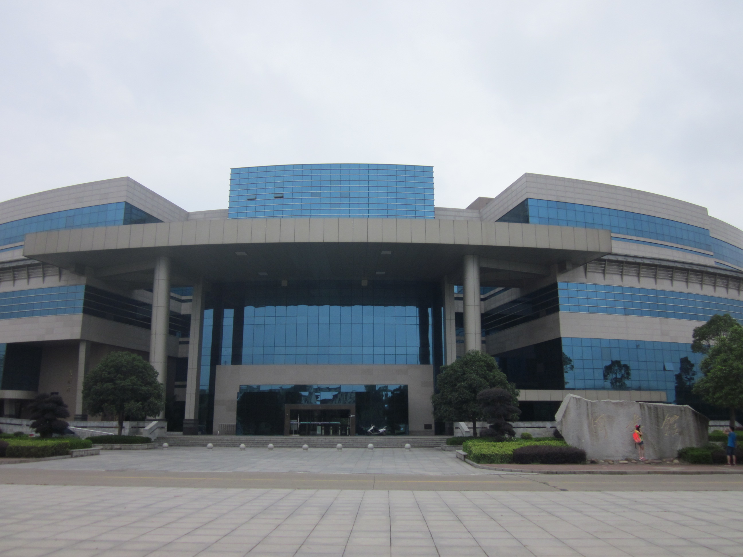 Hunan Agricultural University (Chinese: 湖南农业大学 pinyin: Húnán Nóngyè Dàxué, commonly referred to as HAU or Nongda) is a public research university located in Changsha, Hunan, China.